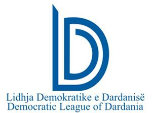 The Logo of LDD